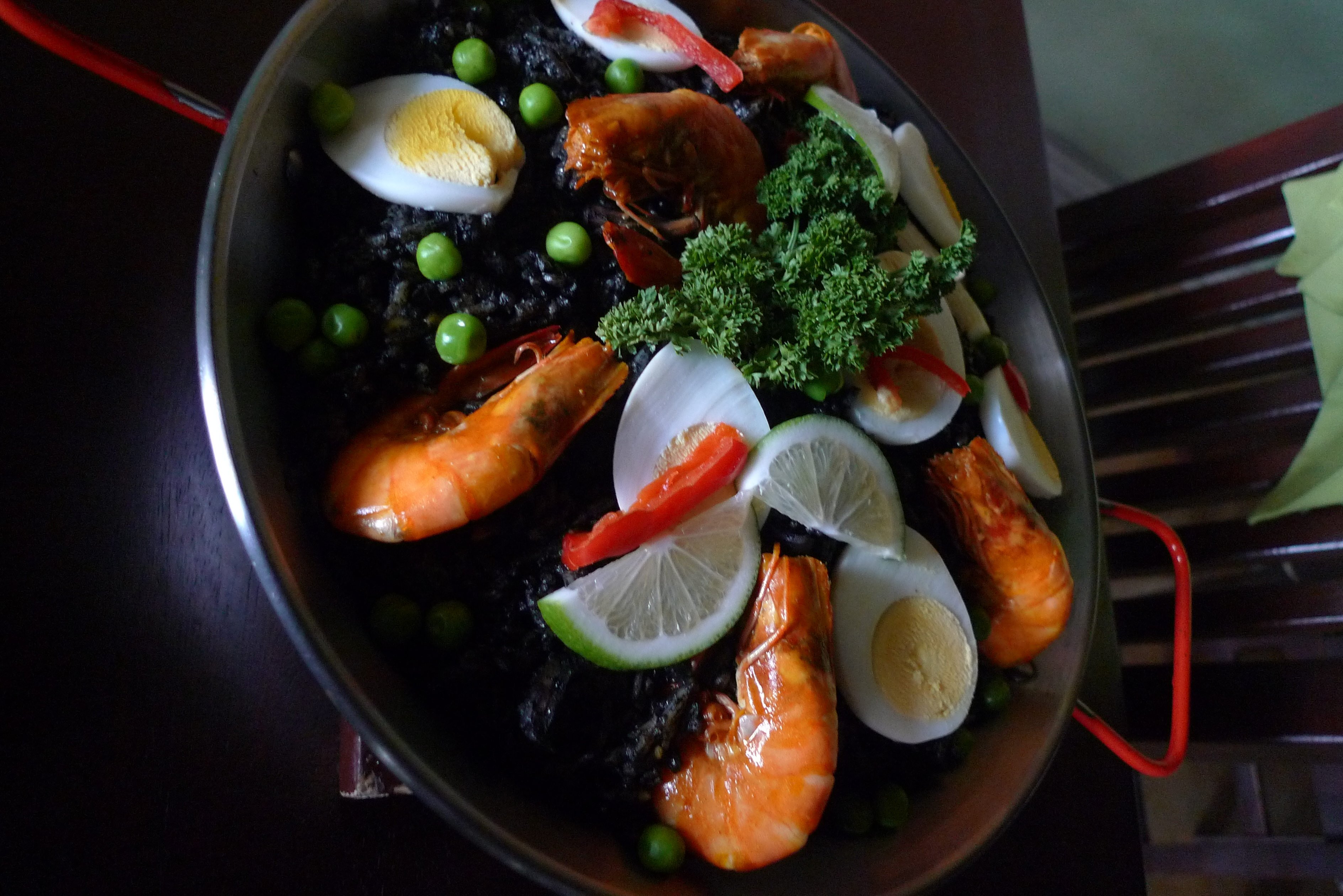 Amalia's - Paella Negra (Philippines)